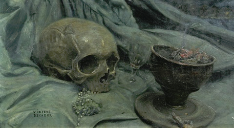 Vincent Deckers: Momento Mory.